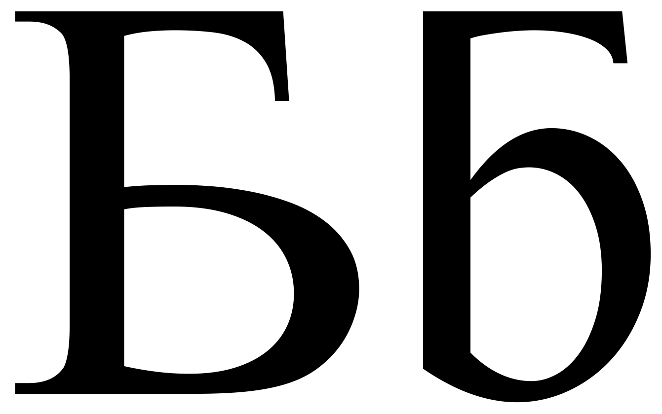 Glyphs Ƃ and ƃ in Doulos SIL